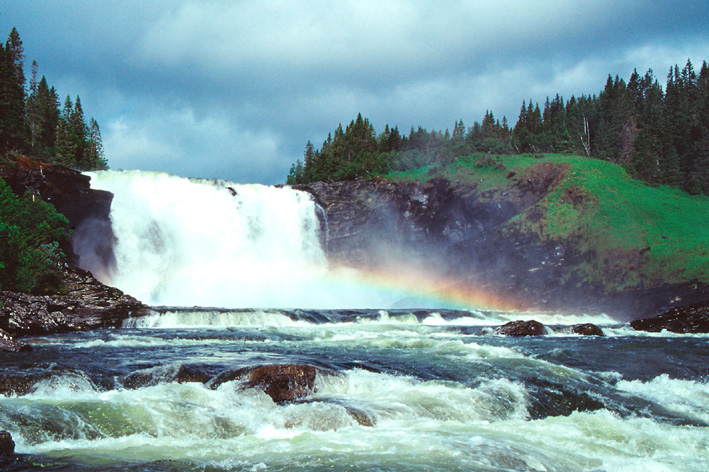 Tännforsen waterfall (Jämtland, Sweden)